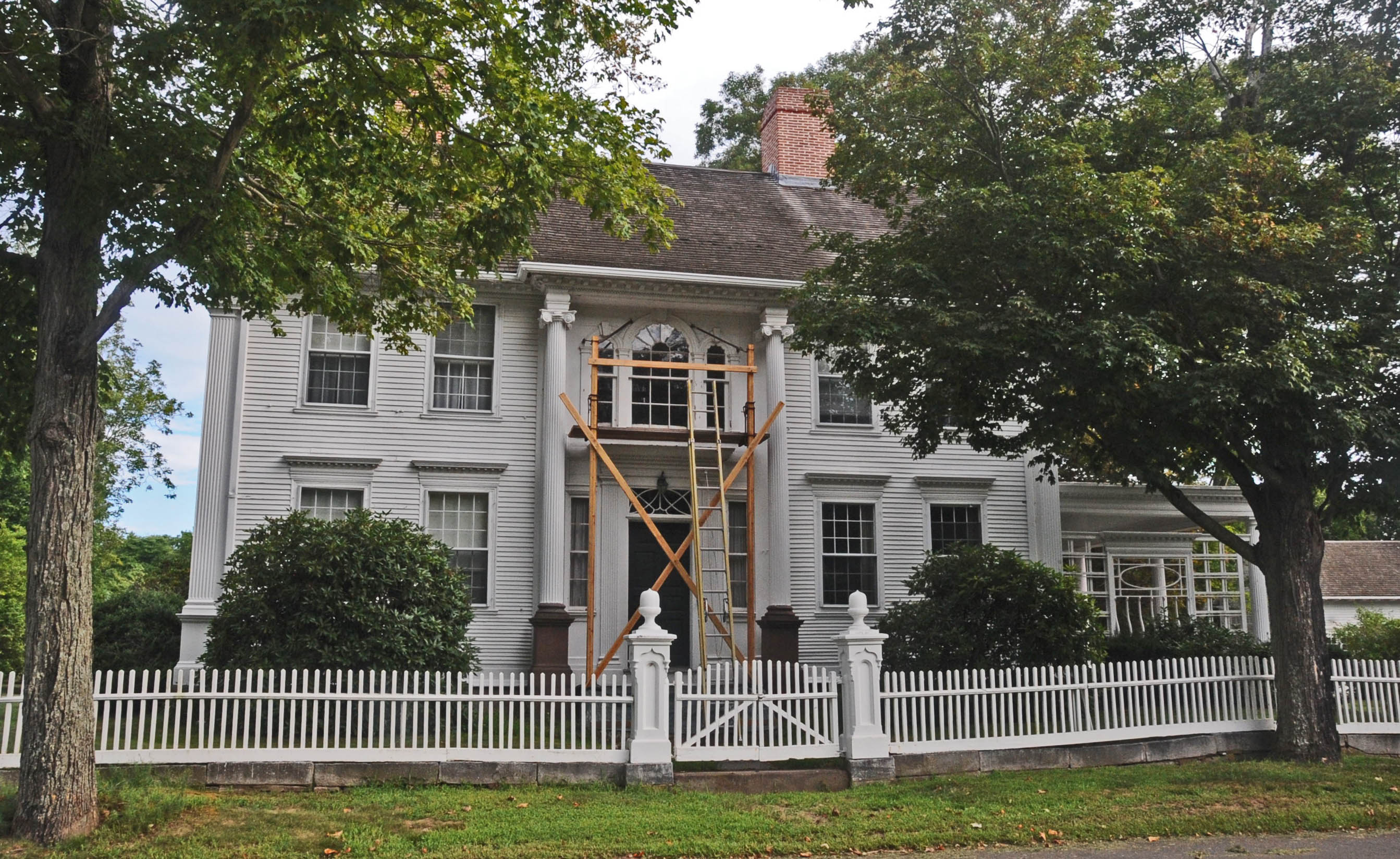 BUILT IN 1798; THE HOUSE WAS DESIGNED BY JONATHAN WARNER, A FARMER, WHO COPIOUSLY DOCUMENTED THE HOUSE. THE HOUSE WAS ILLUSTRATED BY J. FREDERICK KELLY IN HIS PROMINENT BOOK THE EARLY DOMESTIC ARCHITECTURE OF CONNECTICUT (1963)